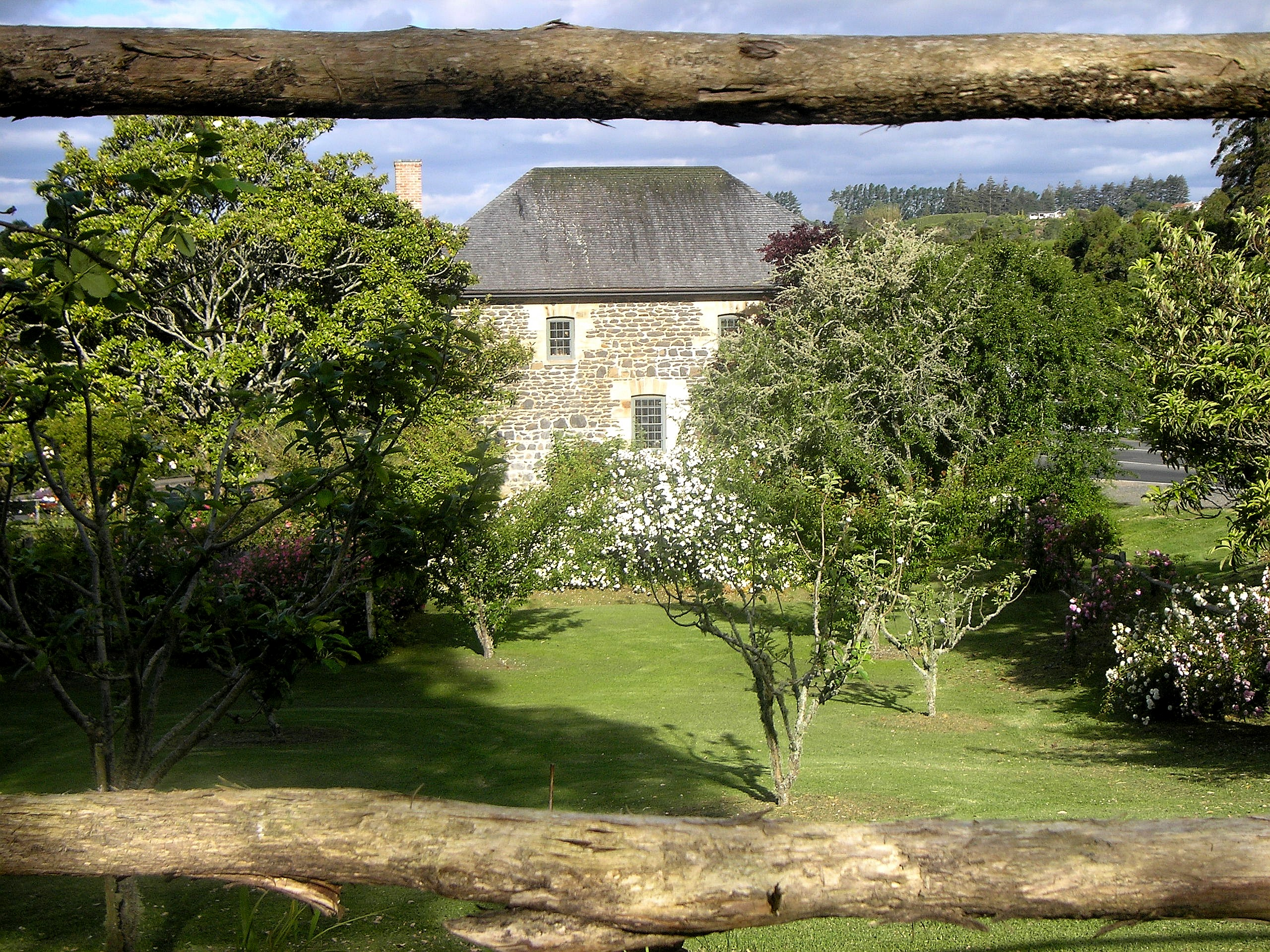 photo by author 2006